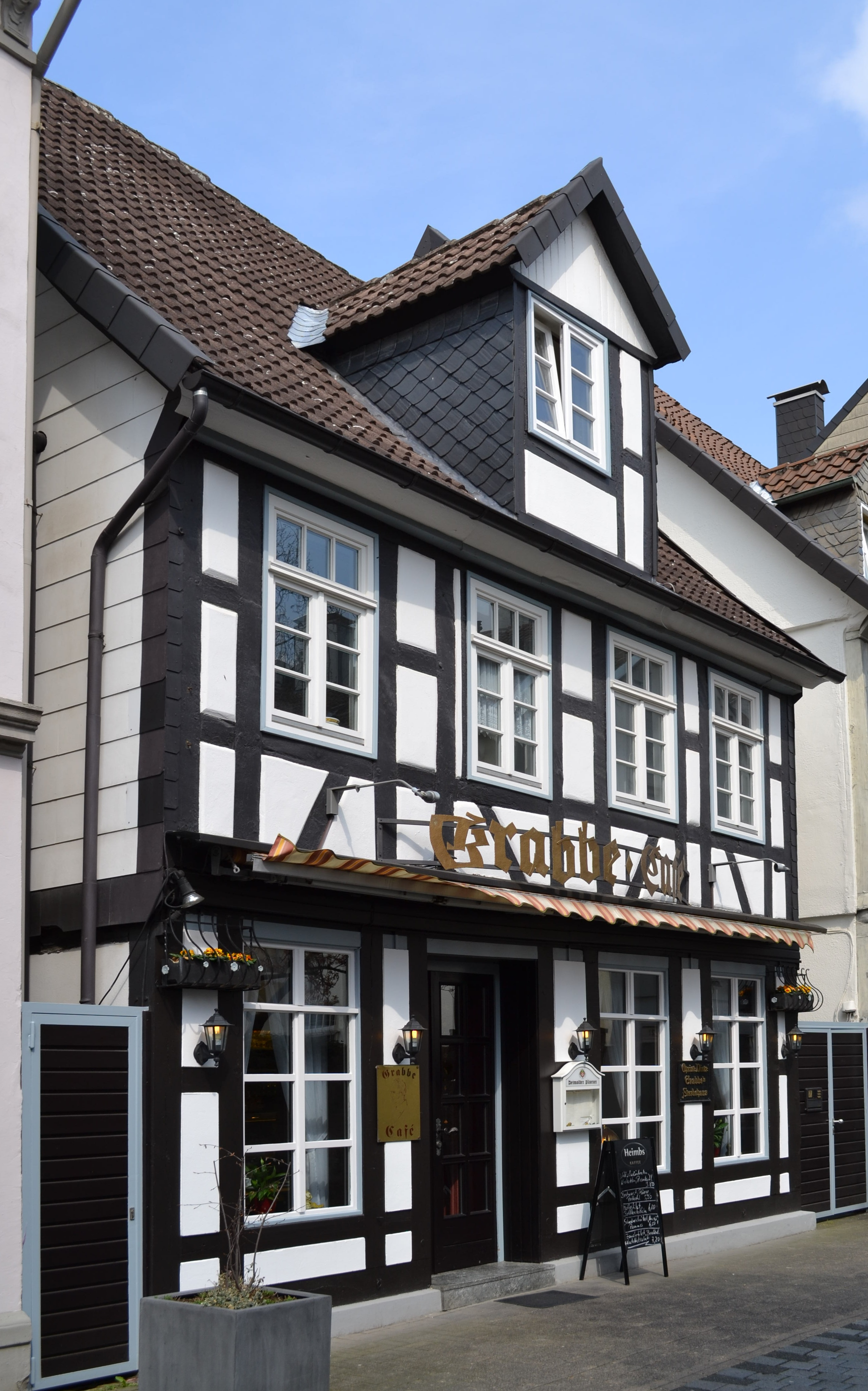 Last residence of German dramatist Christian Dietrich Grabbe